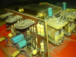 Унутрашњост_старог_електромеханичког_регулатора_напона_етф.jpg